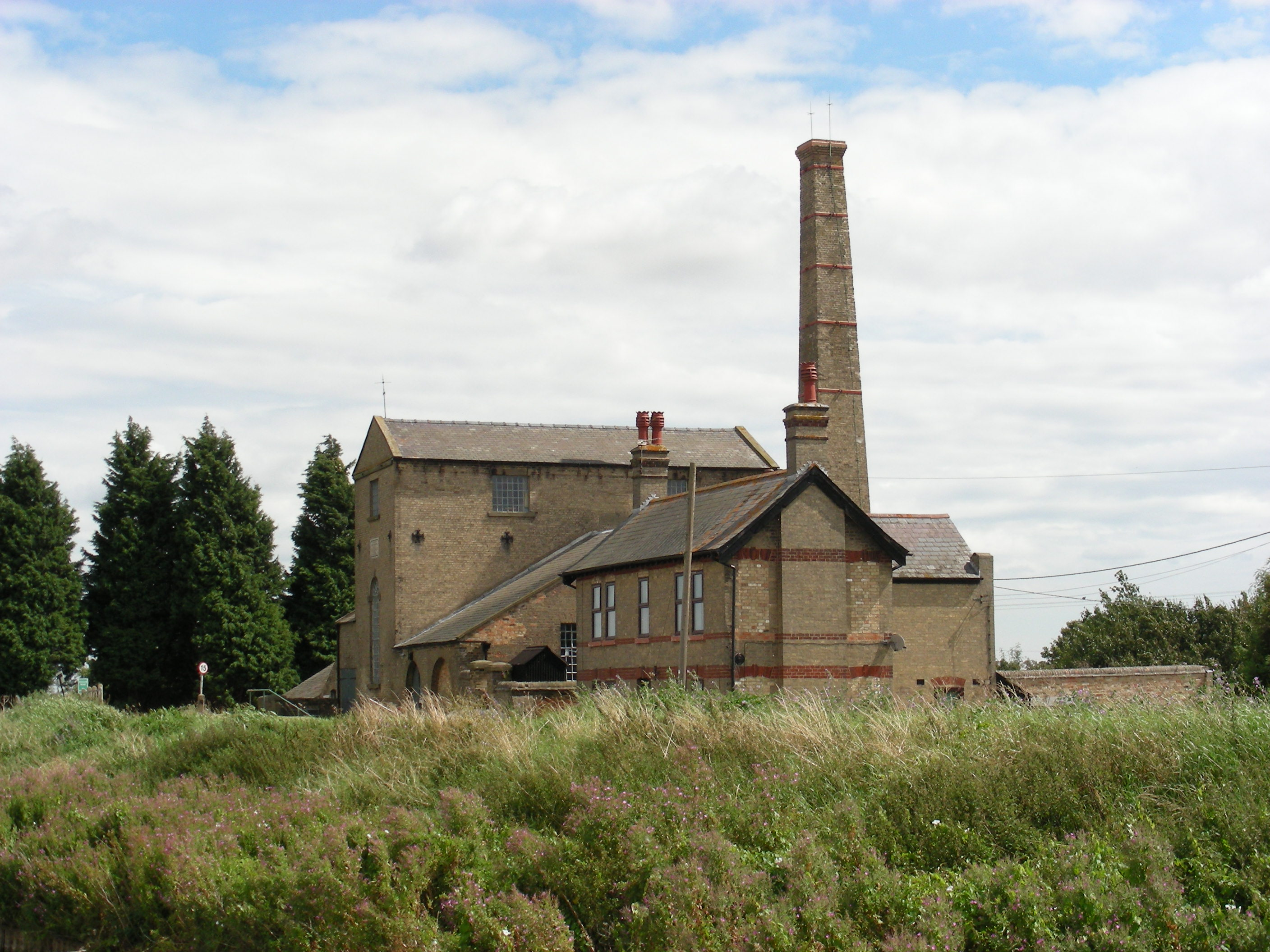 Stretham Old Engine by William M. Connolley